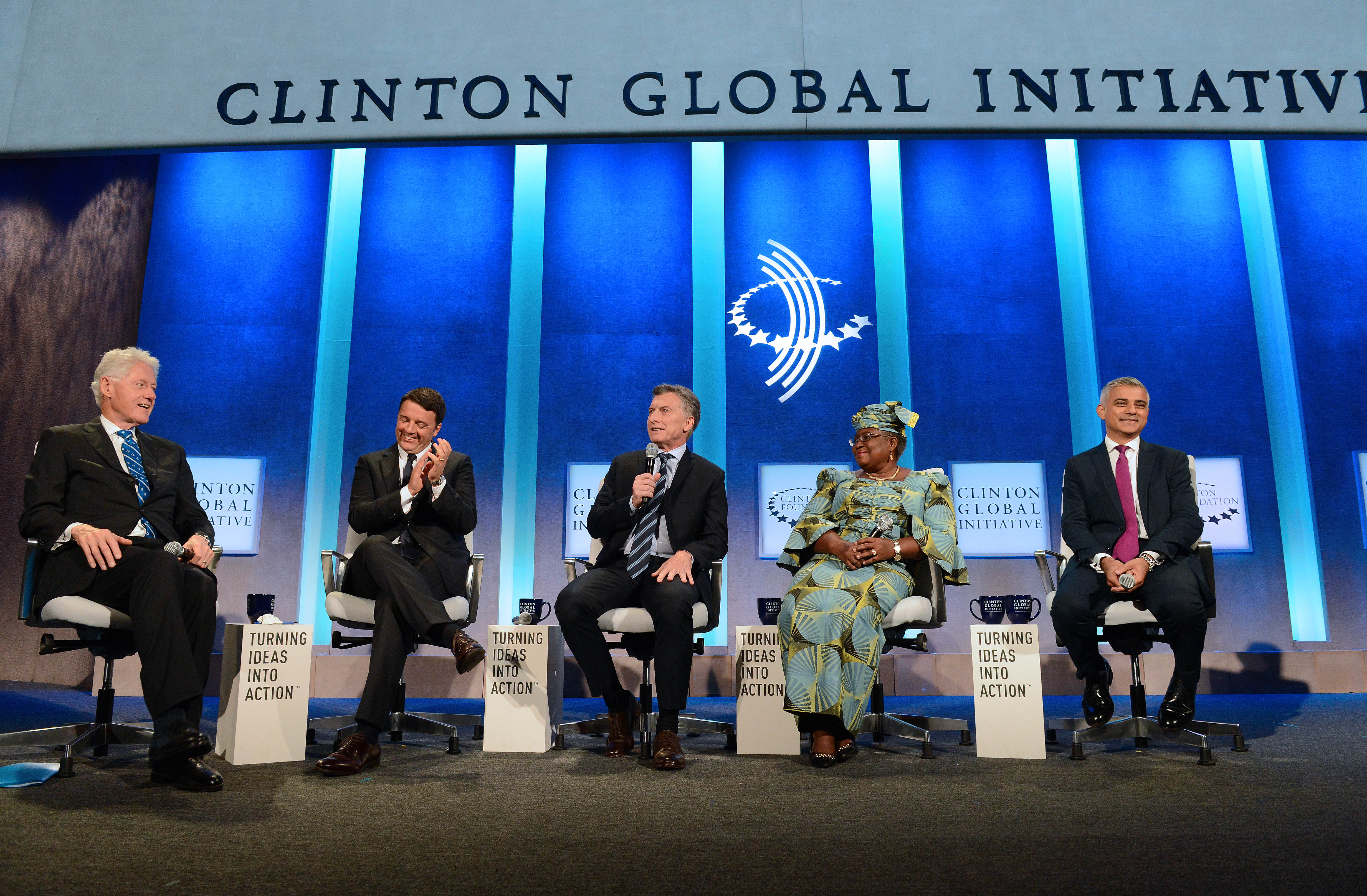 Argentina´s president Mauricio Macri at the Clinton Global Initiative foundation.